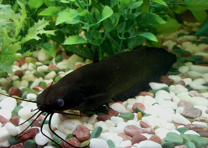 Asian Stinging catfish, Fossil catLatina: Heteropneustes fossilis